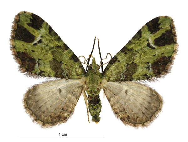 Female specimen of Pasiphila malachita photographed by Birgit E. Rhode, Landcare Research New Zealand Ltd.